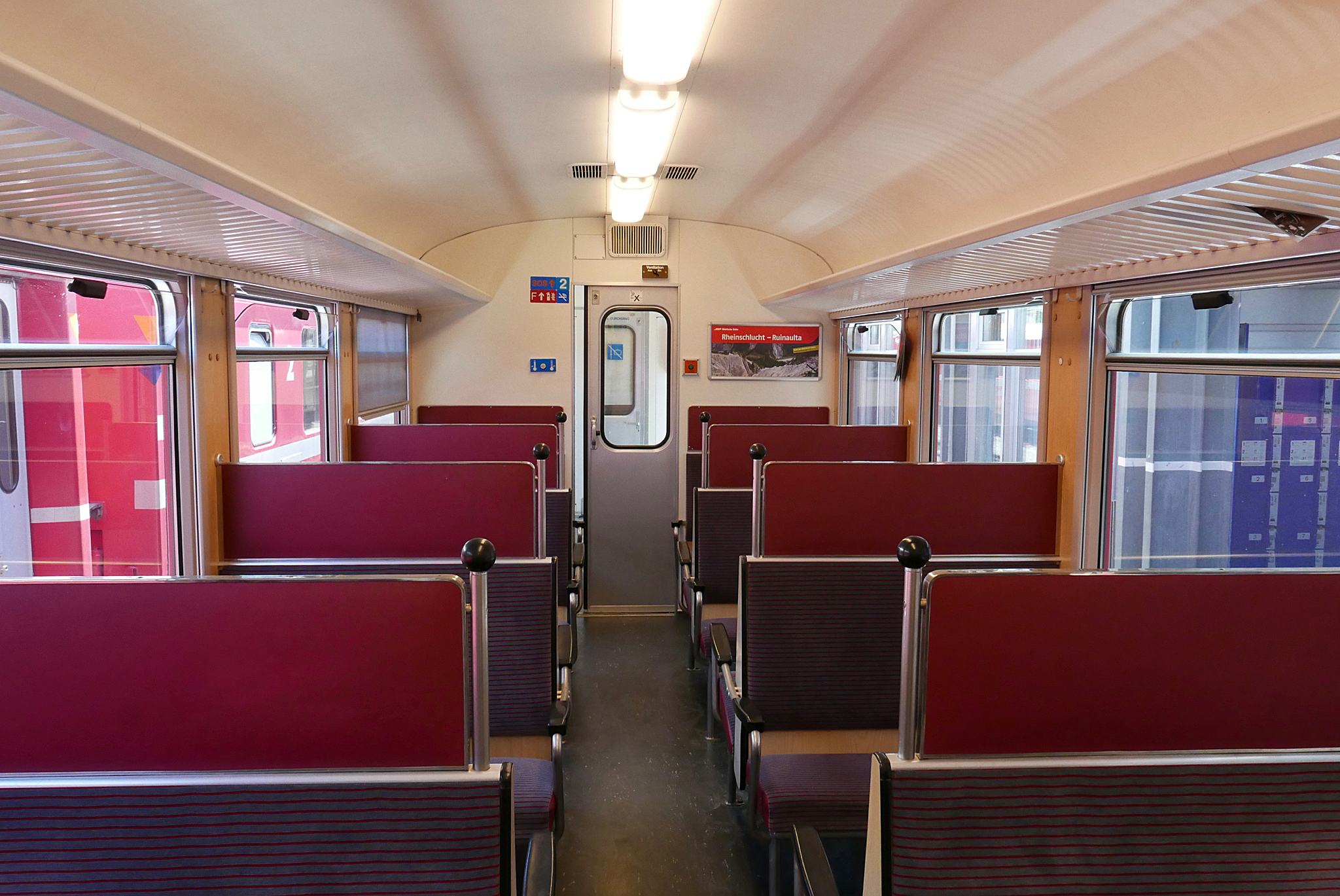 Second class compartment of RhB ABDt 1713.